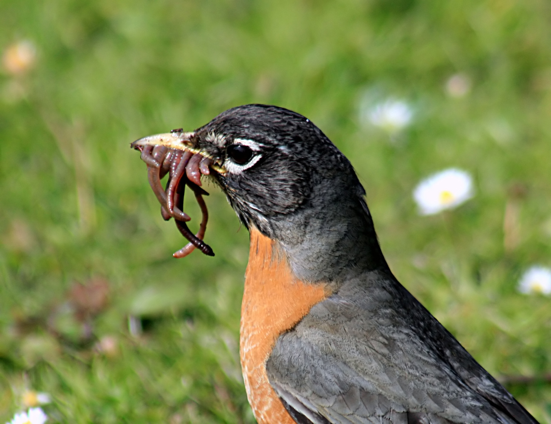 A robin,Turdus migratorius with Worms